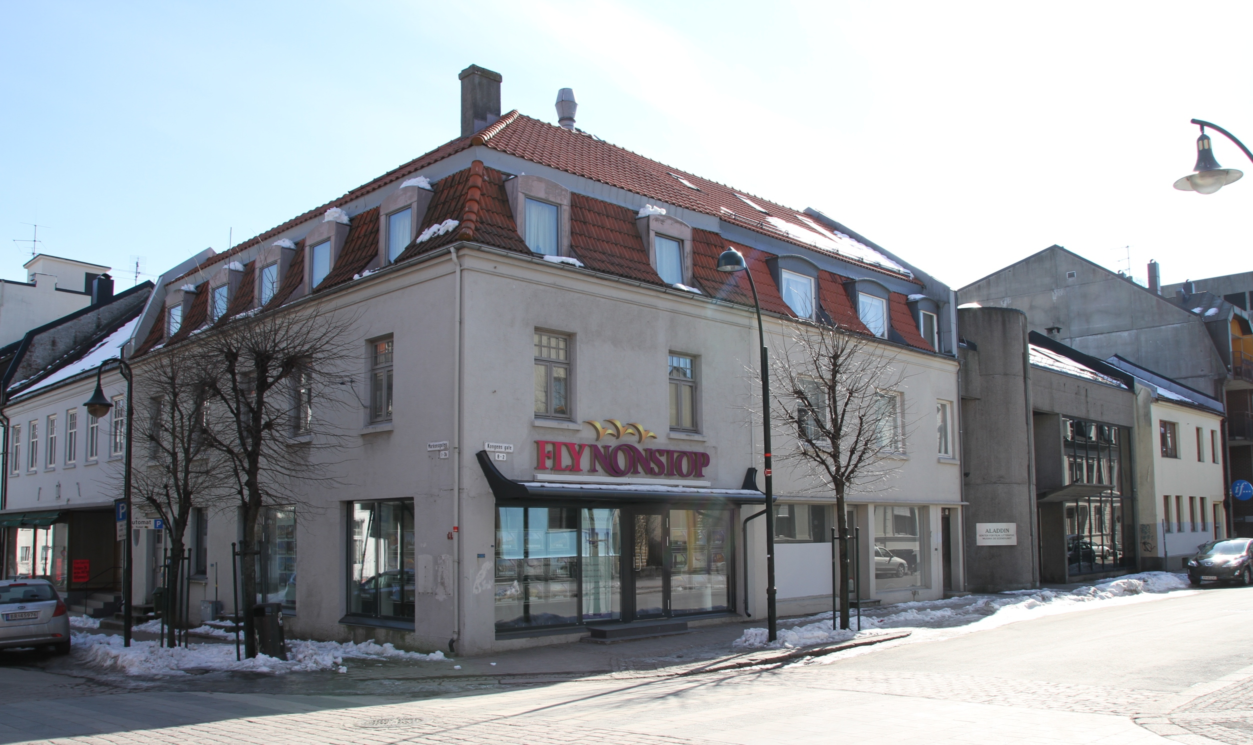 Image from the city of Kristiansand, southern Norway. This is the office of Flynonstop, a local airline. Kongens gate.